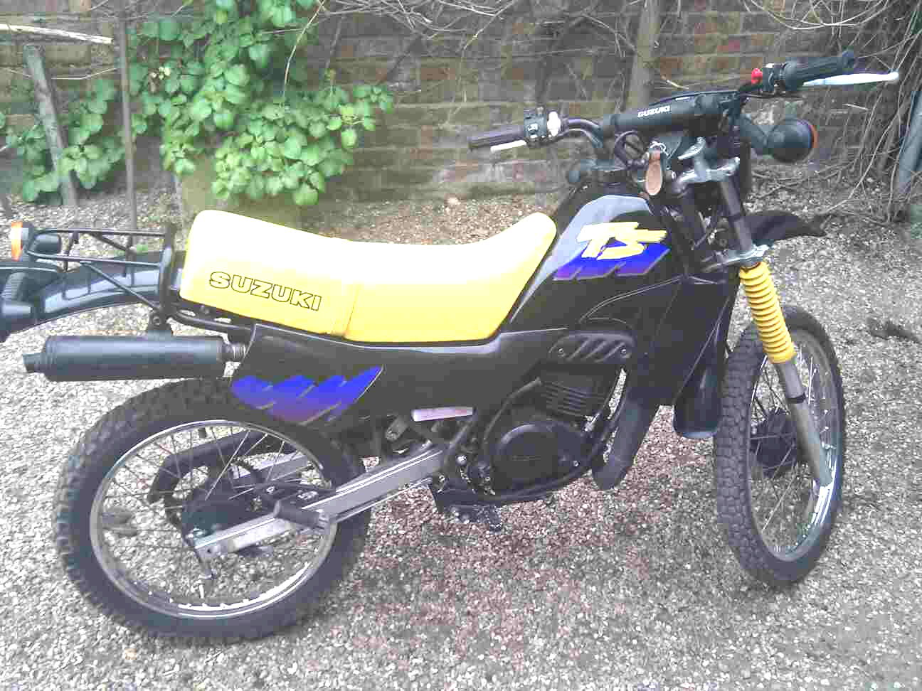 A Suzuki TS50X(KR), 2002 plate. (UK)